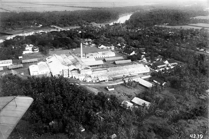 Spirit distillery factory in Tjomal near Pekalongan, Middle-Java.